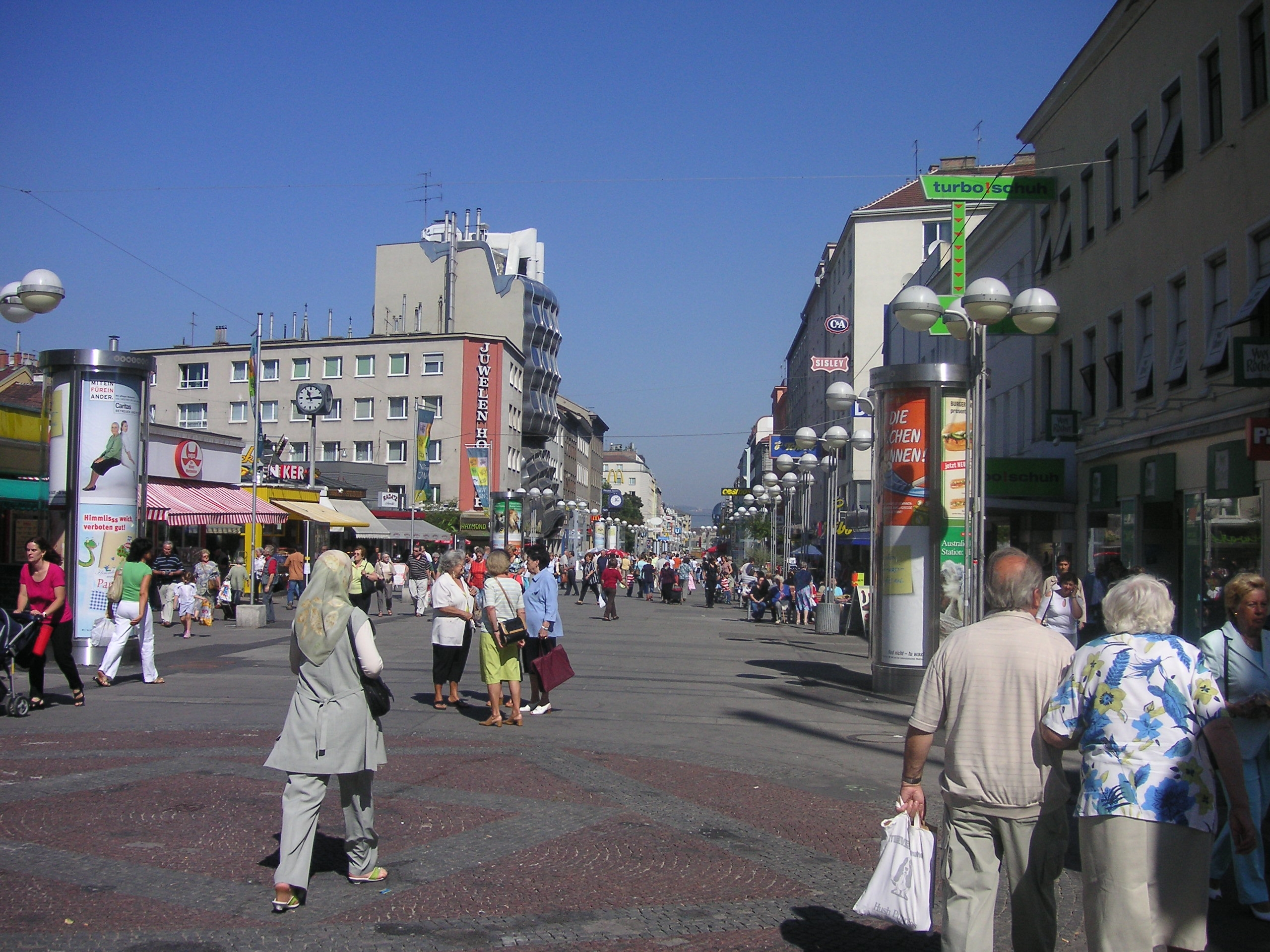 The Favoritenstraße is Favoriten's main artery. One of Vienna's first car-free zones, it is close to the Viktor-Adler-Markt (to the left). On either side of the image a modern version of a Litfaß column can be seen. Photo by KF, September 2005.